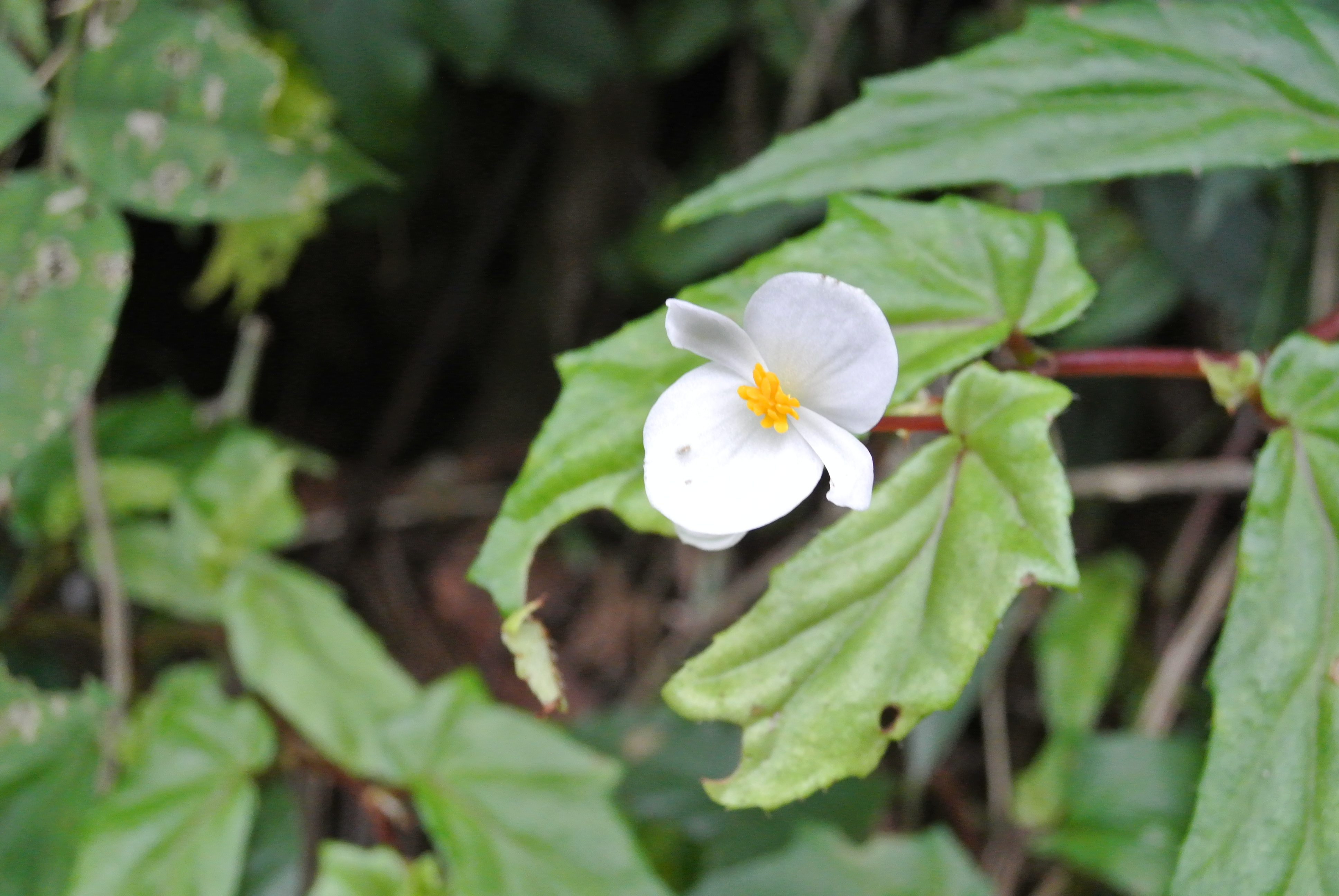 taken in Cuba, in Reserva Ecológica Lomas de Banao (Finca la Sabina) identification by the great Merlis Ramirez Artiles